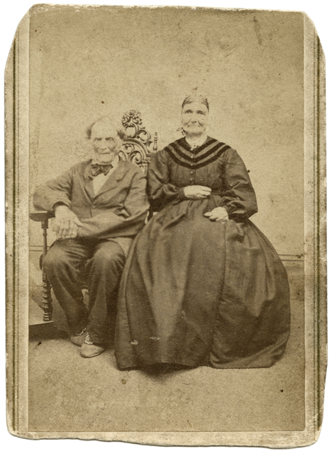 Benjamin Gervais, Sr. with his wife Genevieve Larans Gervais. « Benjamin Gervais, Sr. First settler and founder of Saint Paul. Gave land for the first Catholic church. Saint Paul was the patron saint of the first priest, Father Galtier,thus the name Saint Paul. Founded Little Canada and Lake Gervais is named for him. Original church and first communion in Little Canada was held in the Gervais home, where the priest, Father Fayolle, was staying. Was appointed and elected County Commissioner. Owned first flour mill in area. Benjamin and Genevieve were married over fifty years. » – dp.la